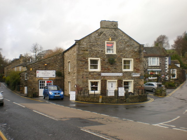 The Wright Wine Companys